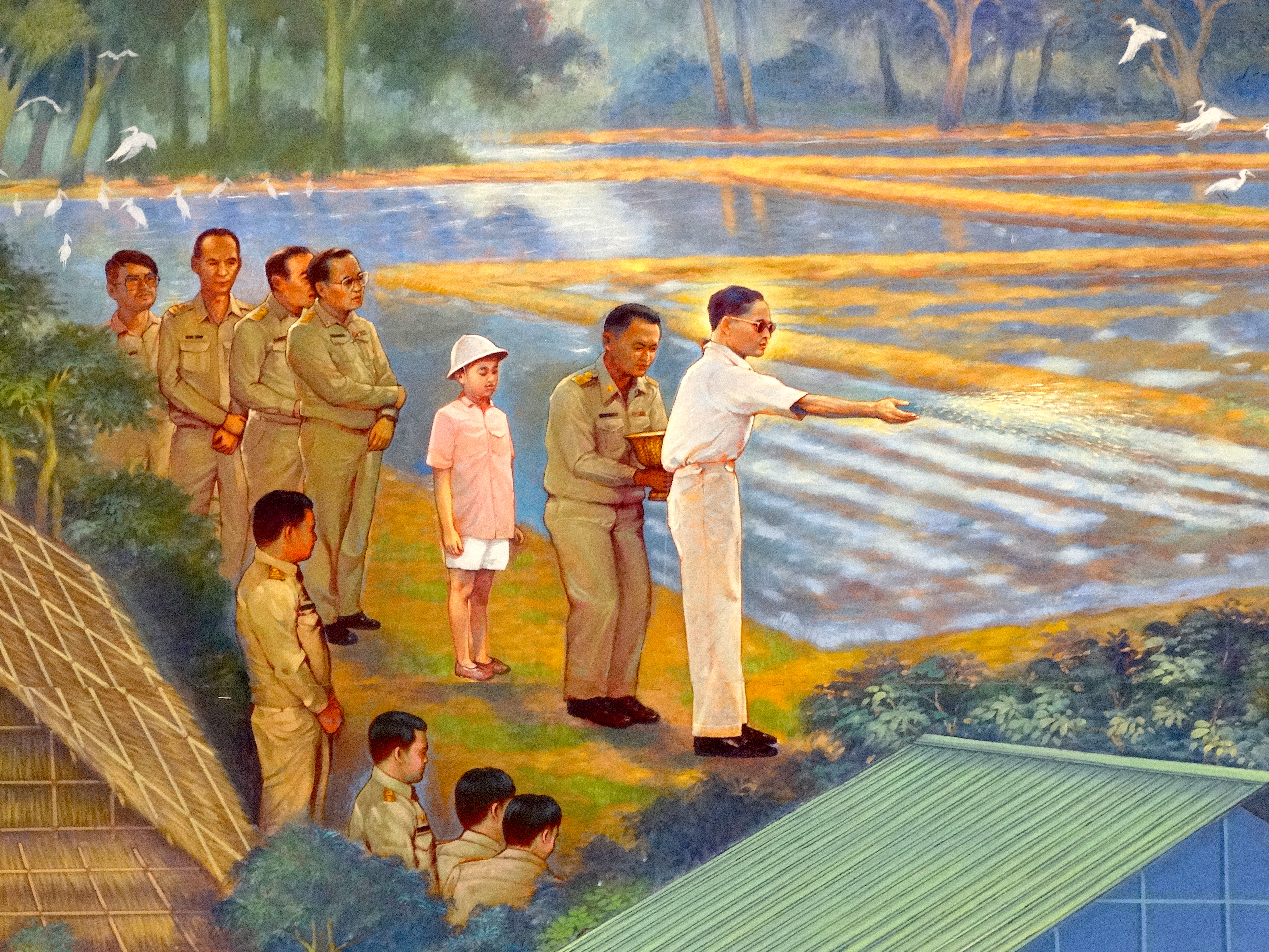 Art and Decoration from Royal Crematorium King Rama 9 of Thailand.